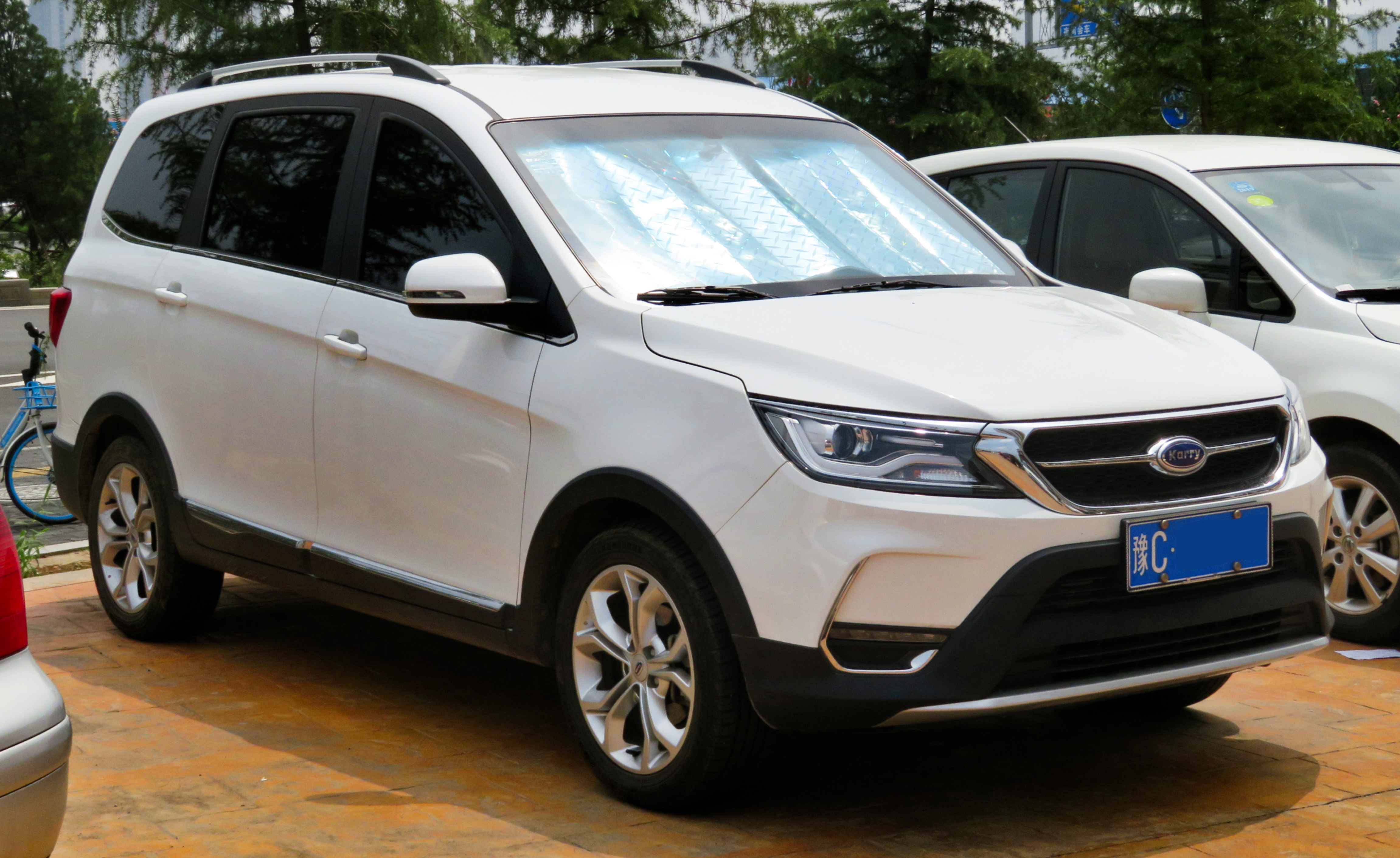 A 2018 Chery Karry K60 photographed in Luolong District, Luoyang, Henan province, China